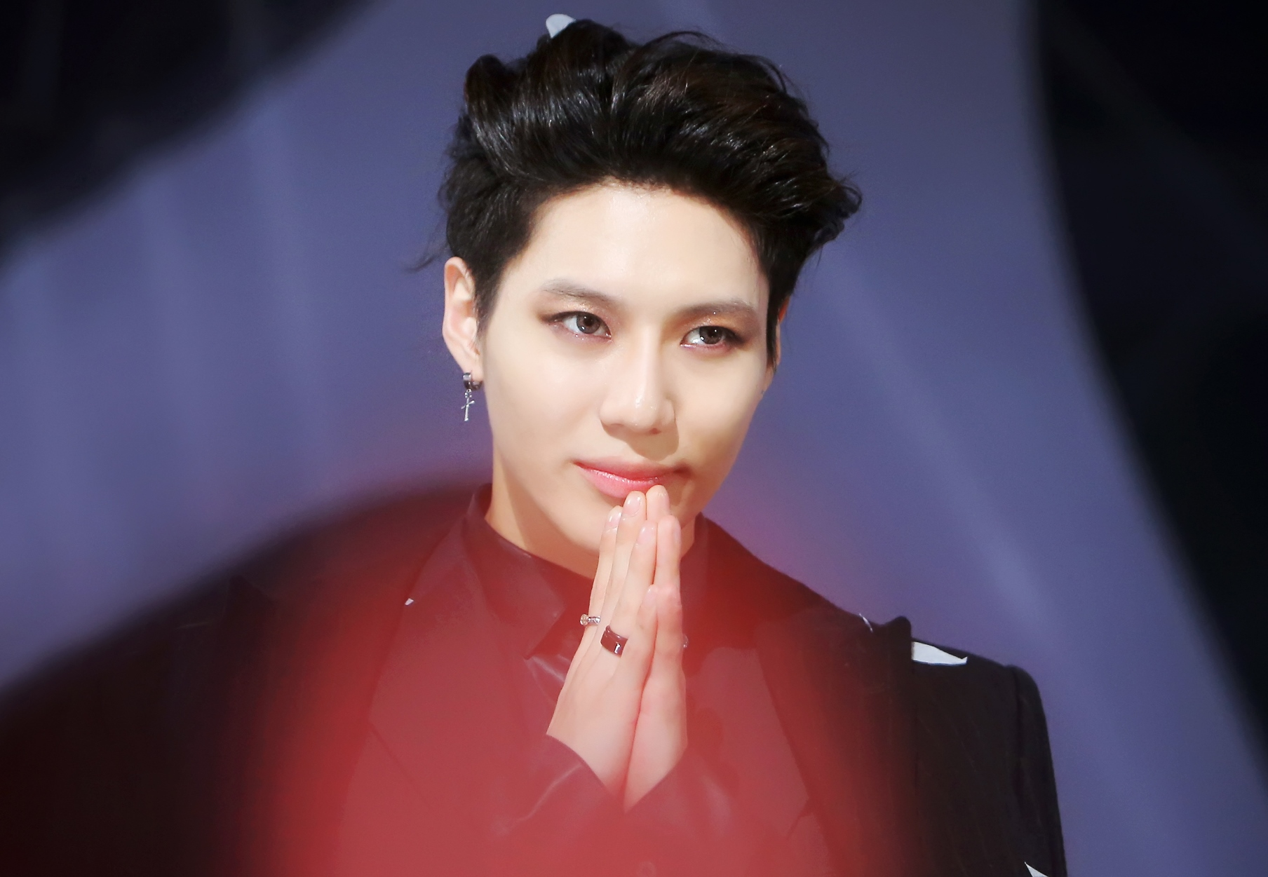 Taemin at the MBC Gayo Daejejeon on December 31, 2014.